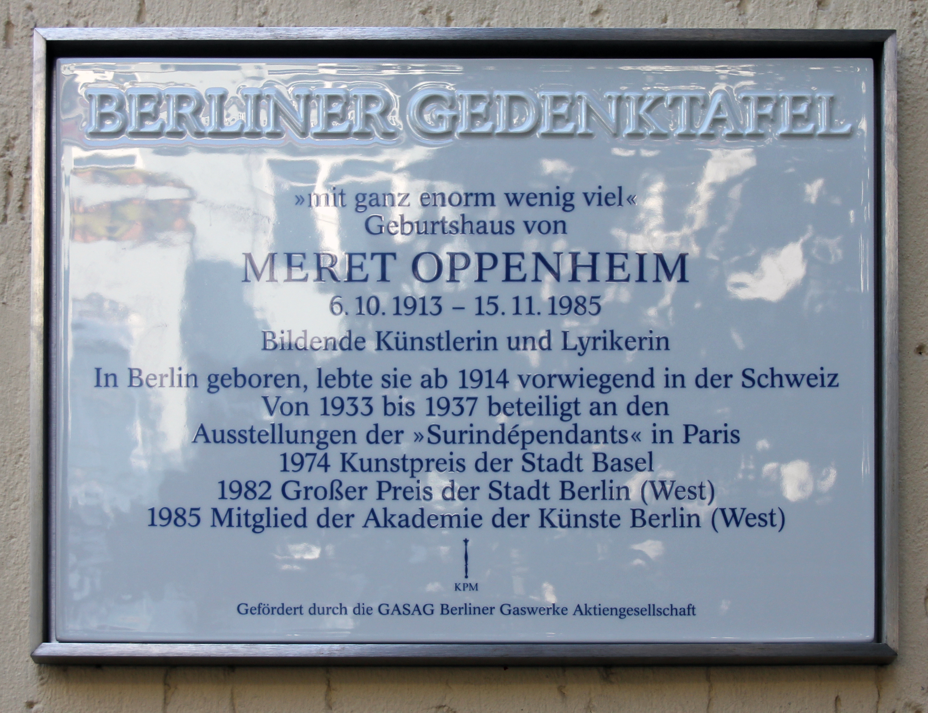 Berlin memorial plaque, Meret Oppenheim, Joachim-Friedrich-Straße 48, Berlin-Halensee, Germany